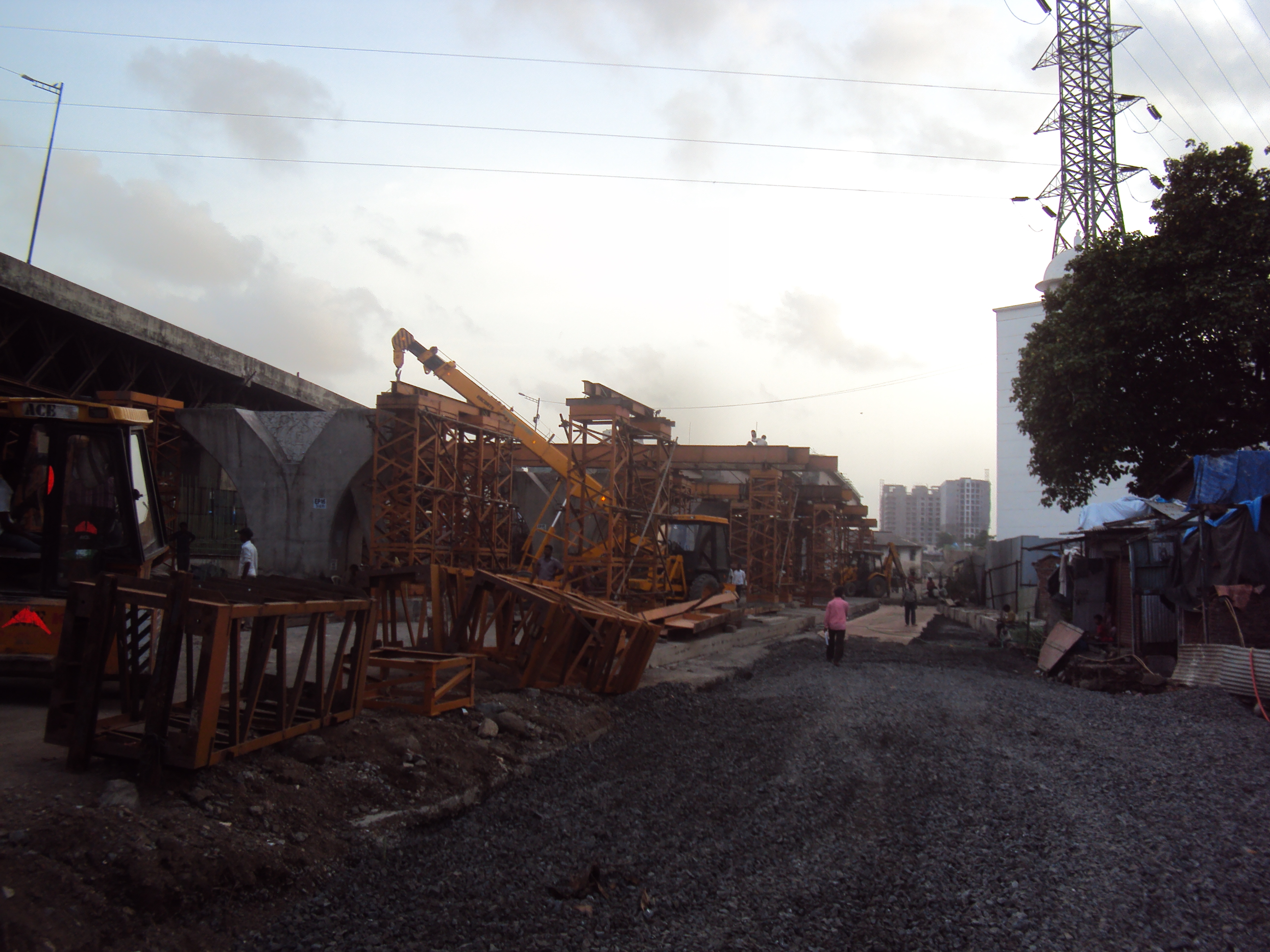 Chembur Santracruz link road under construction in Amar Mahal